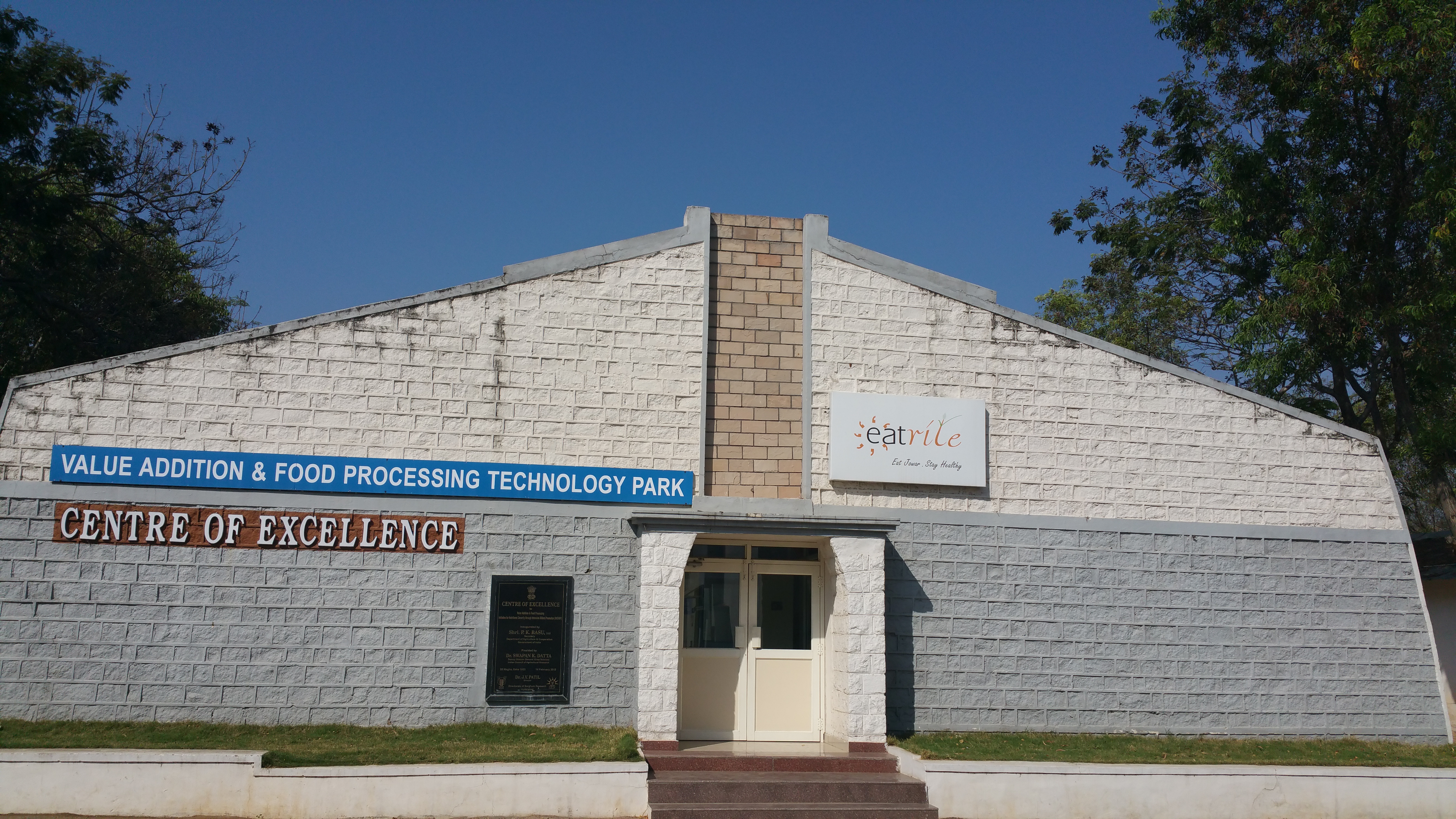 Centre of Excellence on Sorghum